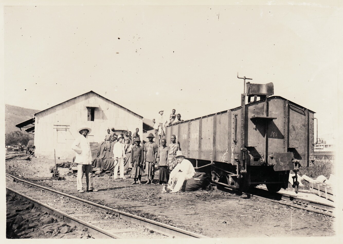 Congo Railways